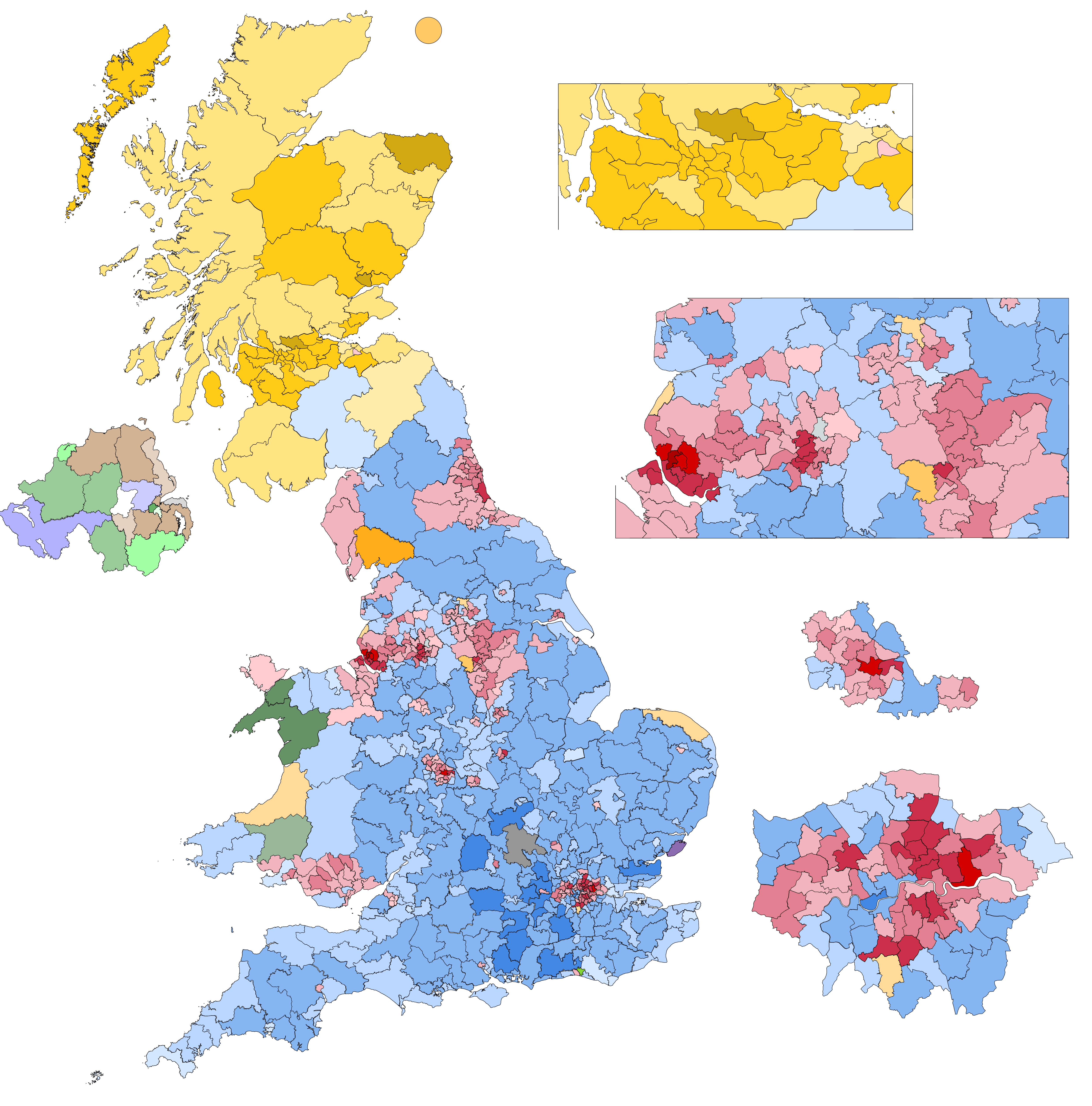 2015 results by constituency, shaded according to winning party's percentage of the vote